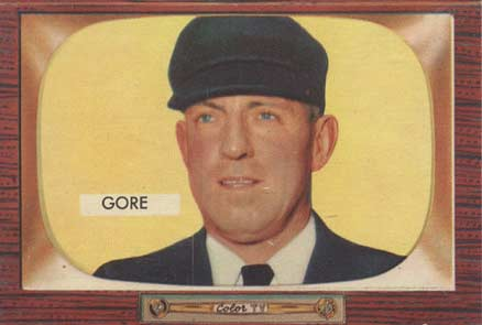 Major League Baseball umpire Artie Gore in 1955.